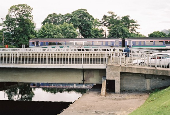 Swing Bridges at bottom of Neptune's Staircase.